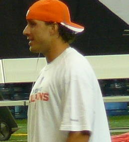 Miami Dolphins long snapper John Denney